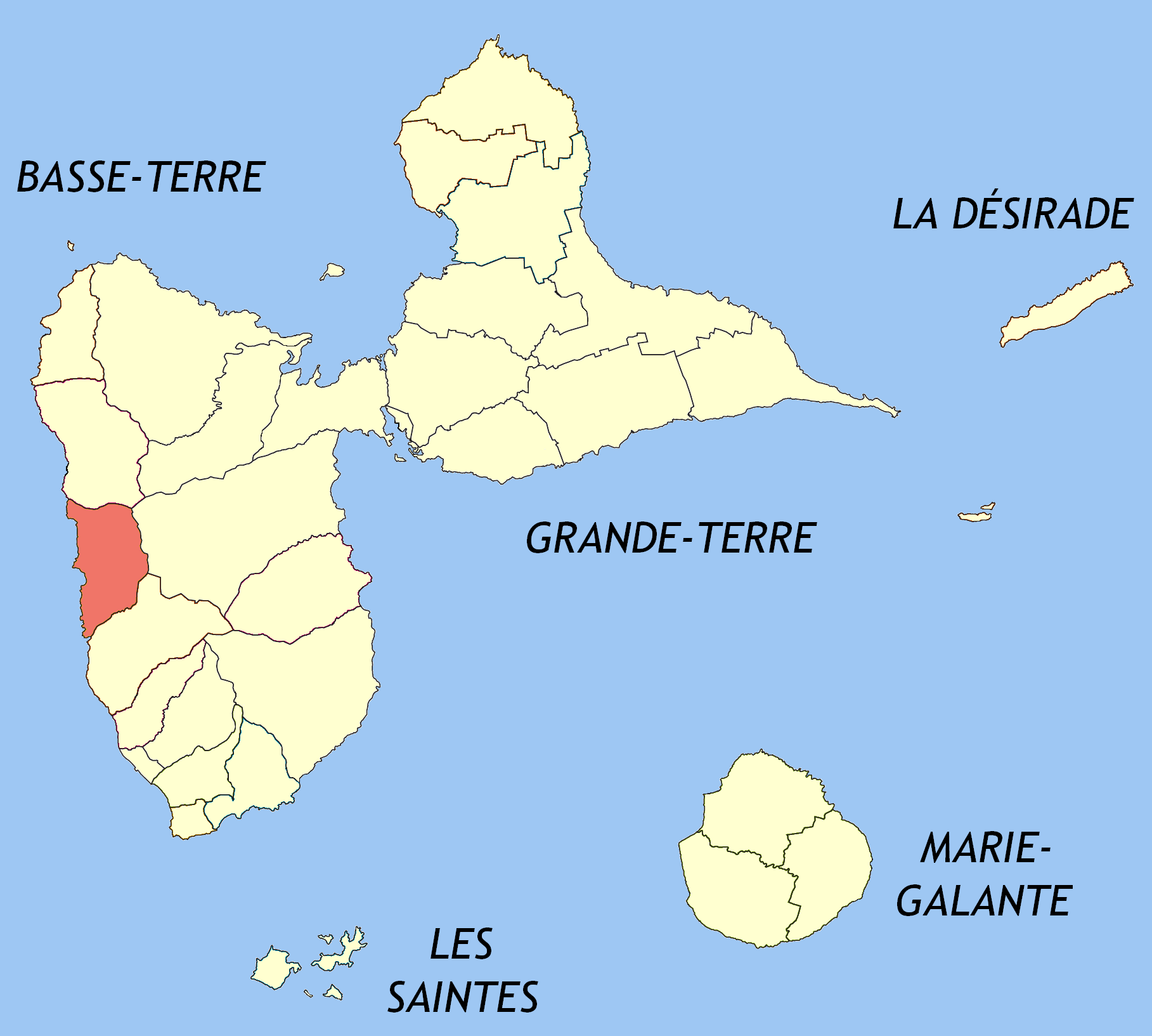 Created map myself.